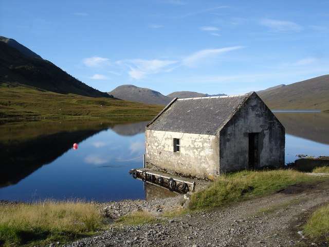 The Boat House on Loch a' Bhraoin. Next to the ruin is a boathouse, which looks like it could still be in use.